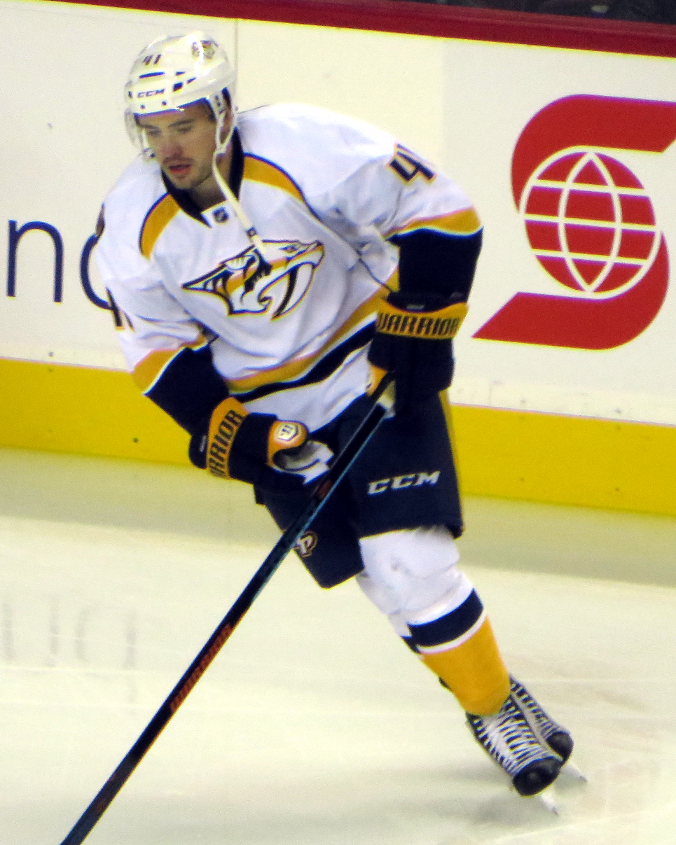 Nashville Predators forward Taylor Beck prior to a National Hockey League game against the Calgary Flames.